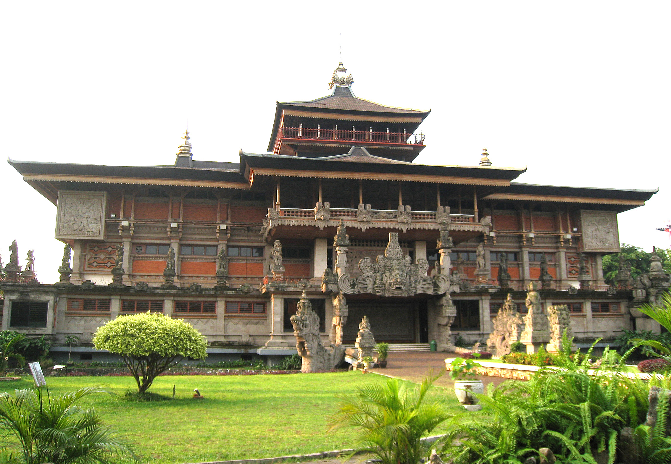 The Main Building of Museum Indonesia in Taman Mini Indonesia Indah, East Jakarta. The building was designed in traditional Balinese architecture.